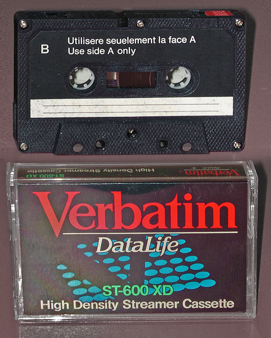 Verbatim ST 600 XD High Density Streamer Cassette for use with 150-160 MB capacity systems